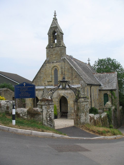 St. Levan's, Porthpean. A view looking east across the steep road to Porthpean Beach, towards the church of St. Levan.